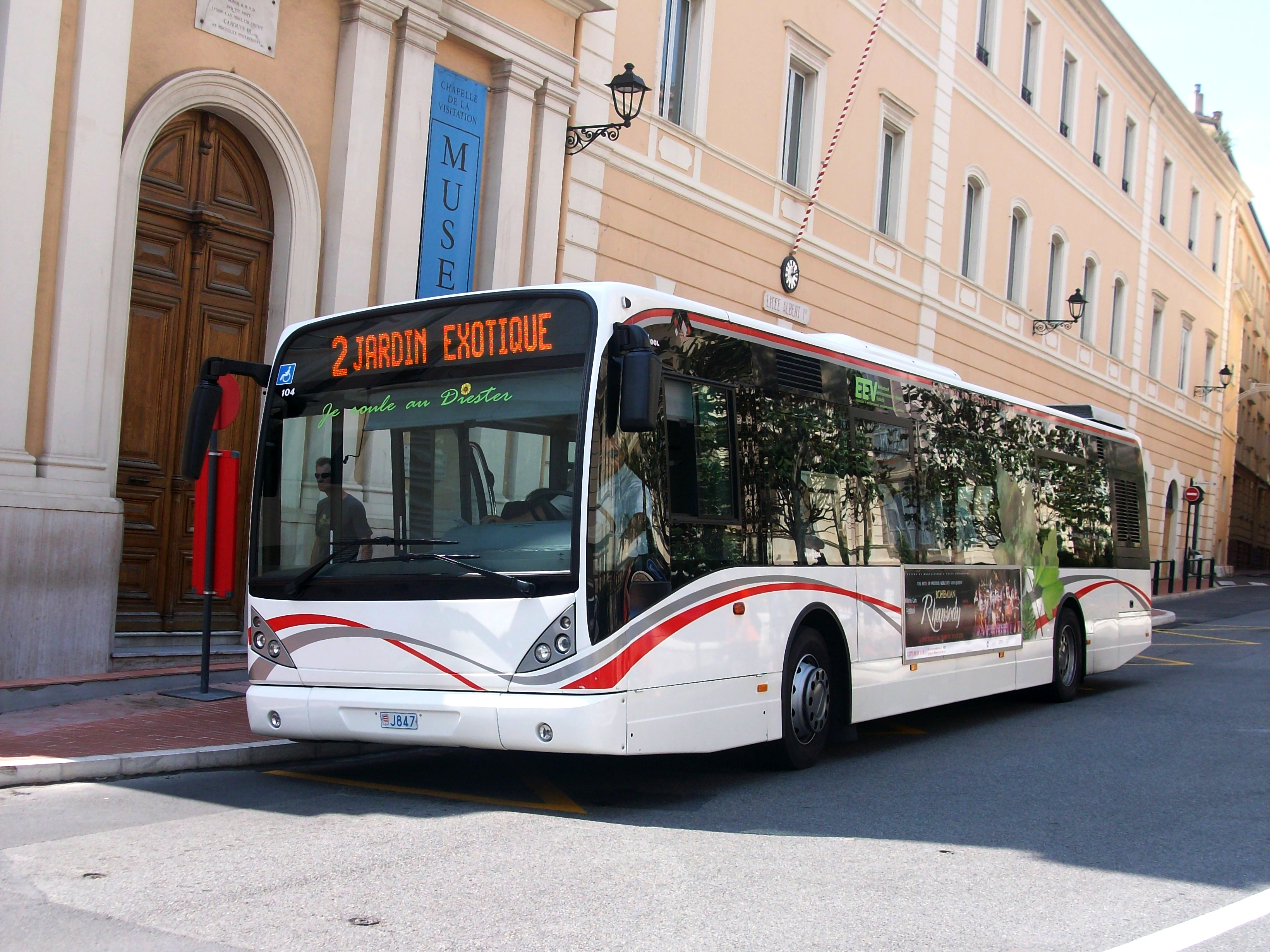 Bus CAM, Monaco